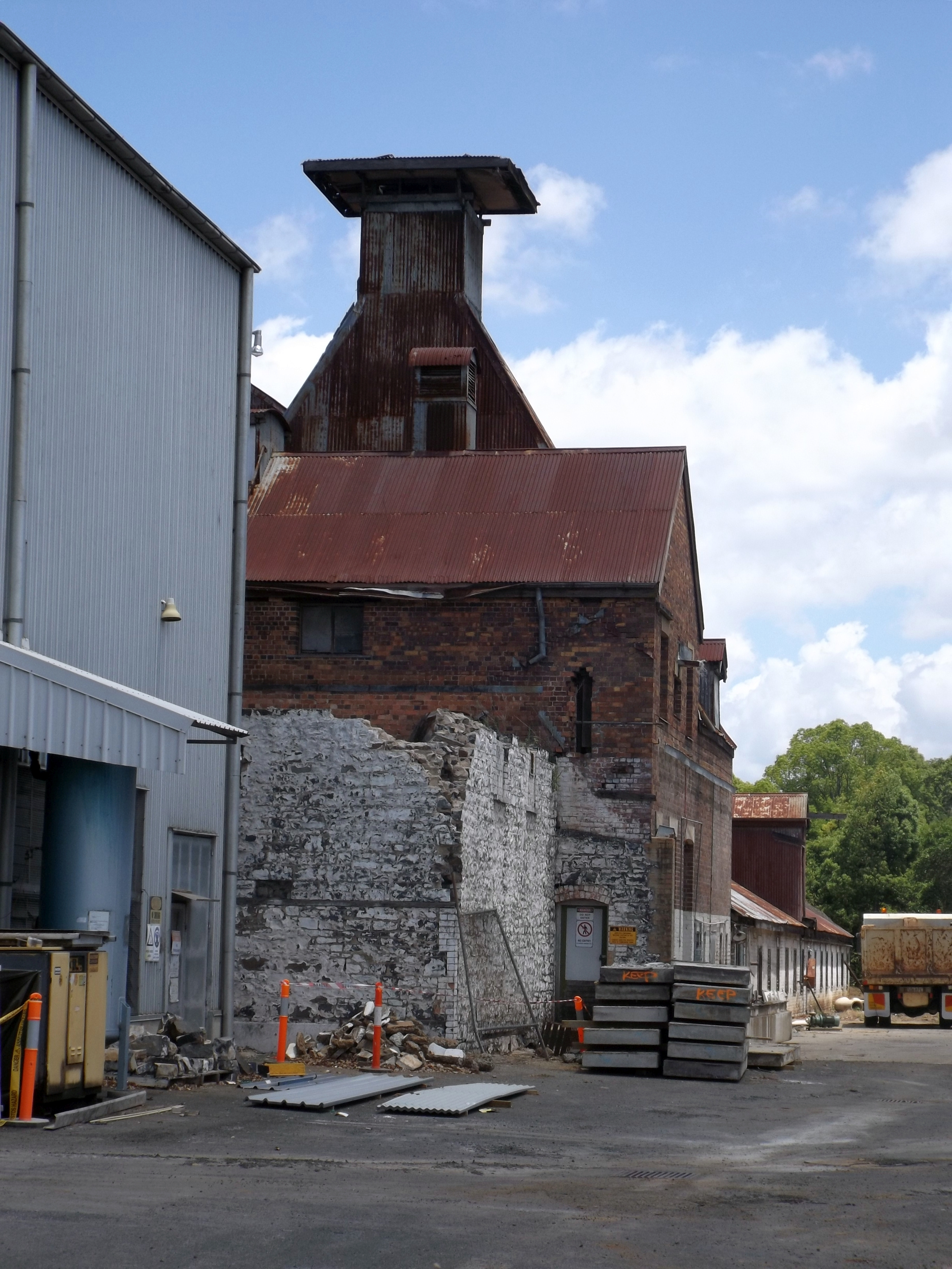 Photo of early malting operations the Toowoomba Maltings in Newtown, Toowoomba, Queensland, Australia.